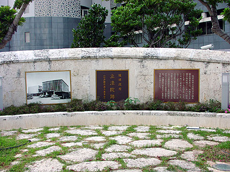 Monument of Legislature of the GRI